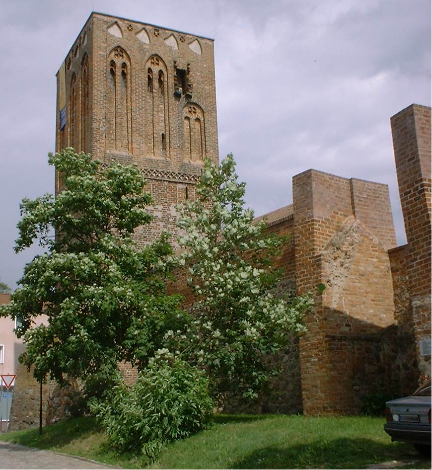 City walls with Schwedter Torturm in Prenzlau in Brandenburg, Germany